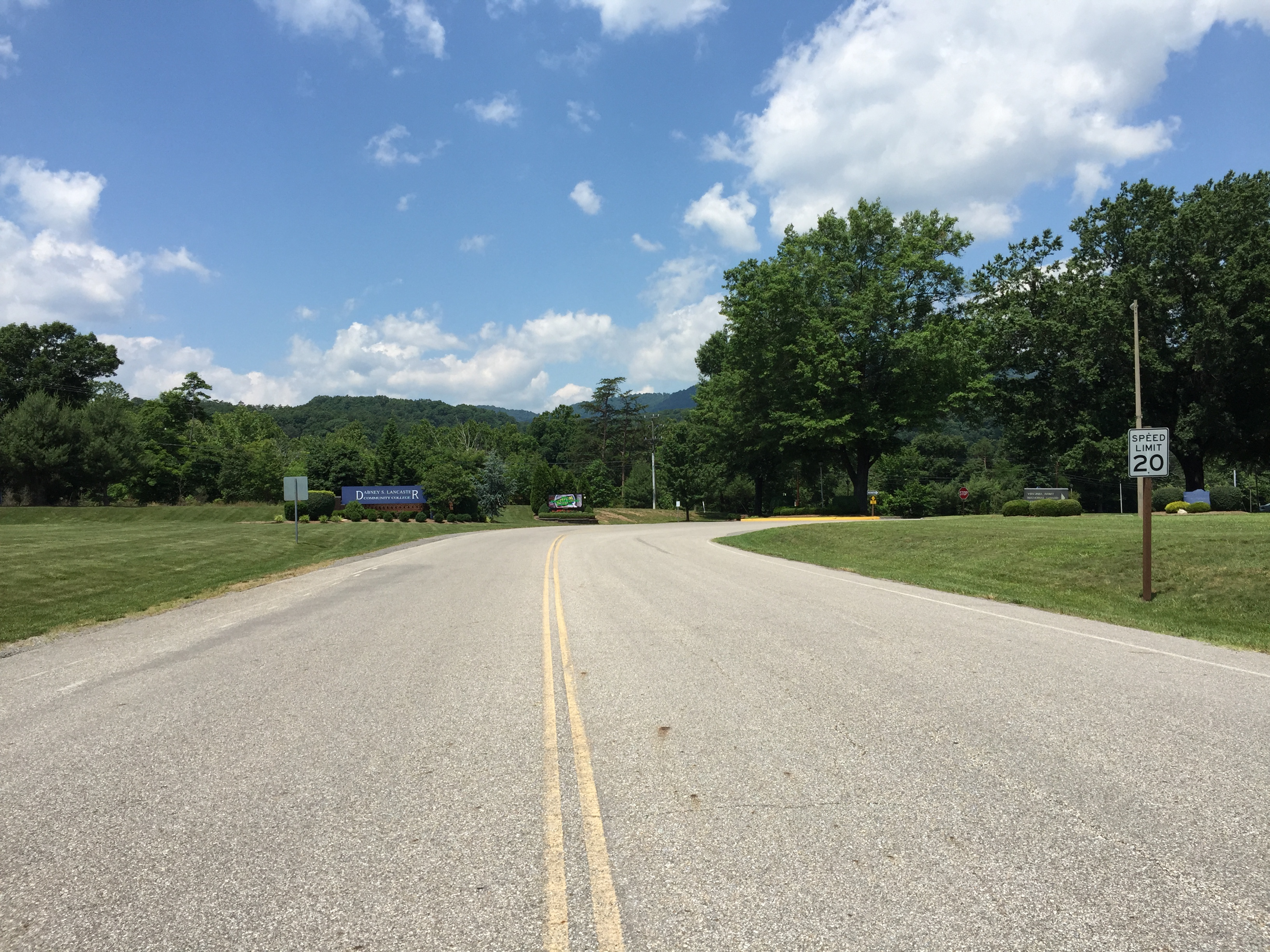 View west along Virginia State Route 384 (Dabney Drive) at U.S. Route 60 Business and U.S. Route 220 Business (Ridgeway Street) just north of Selma in Alleghany County, Virginia